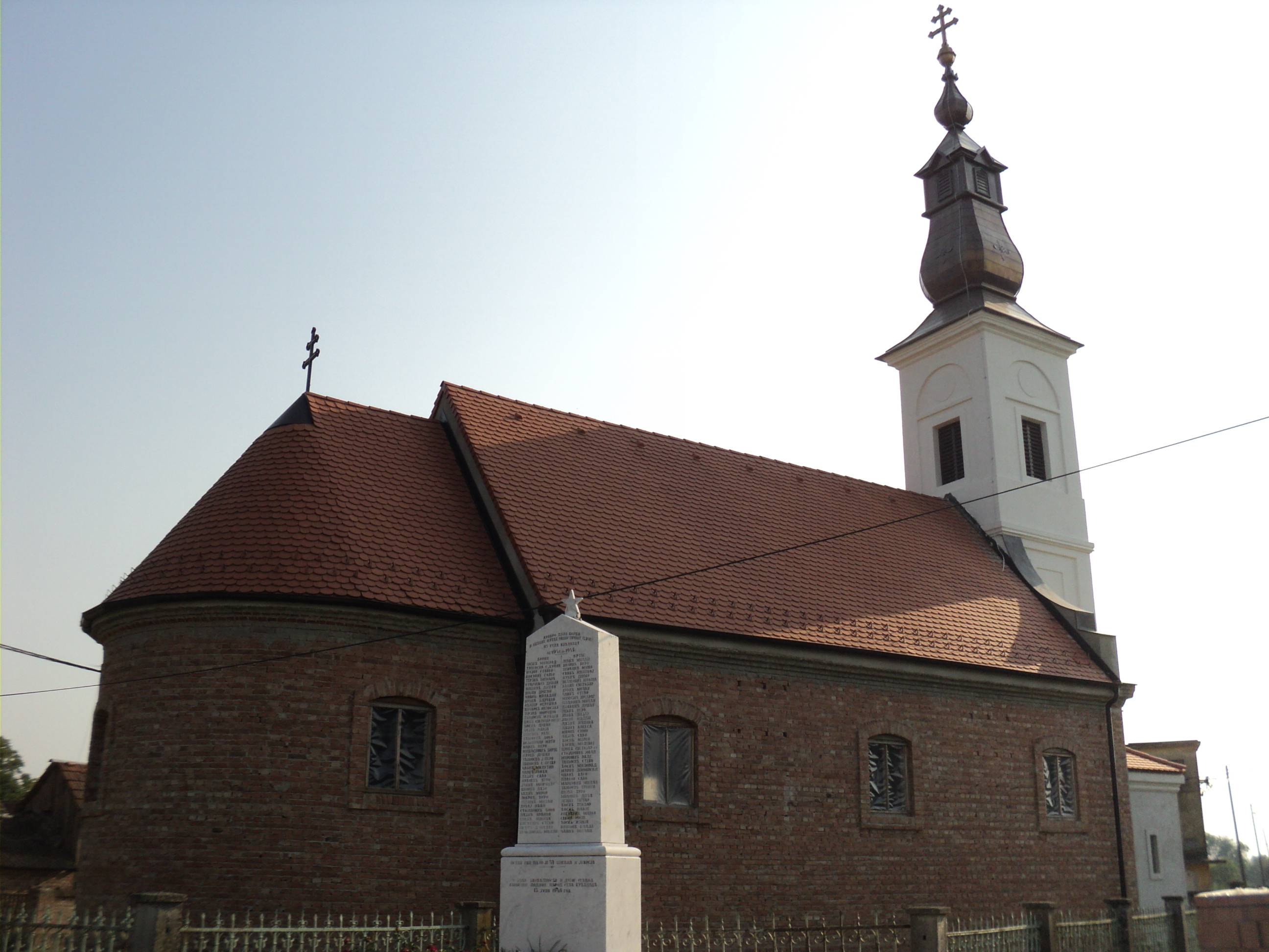 Orthodox church of Saint Peter and Paul and the monument dedicated to the fallen Yugoslav partisans and victims of fascism, Kućanci.